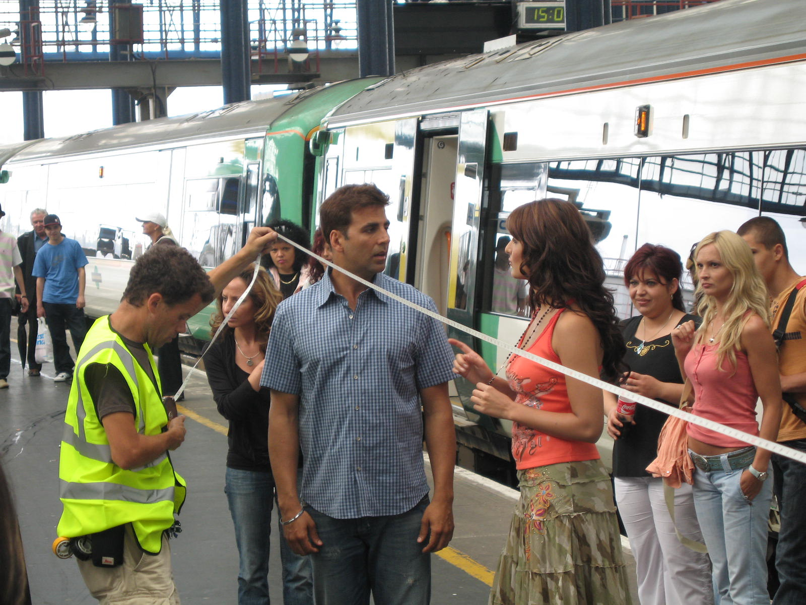 On the set of Namastey London directed by Vipul Amrutlal Shah with Akshay Kumar and Katrina Kaif filmed on Brighton Station, arranged by Train Chartering